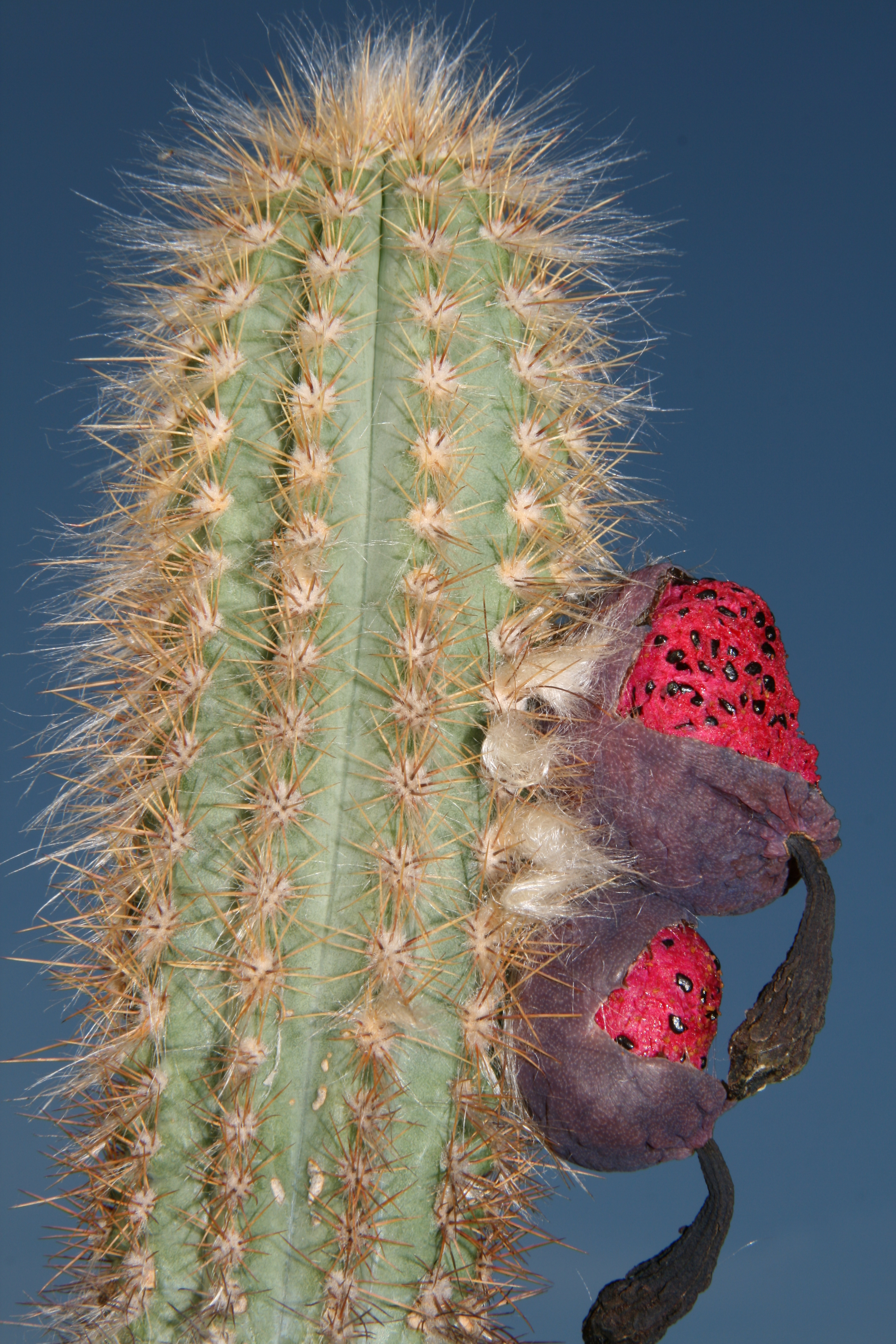 plant with ripe fruits (red pulp) from NE Goias, Brasil